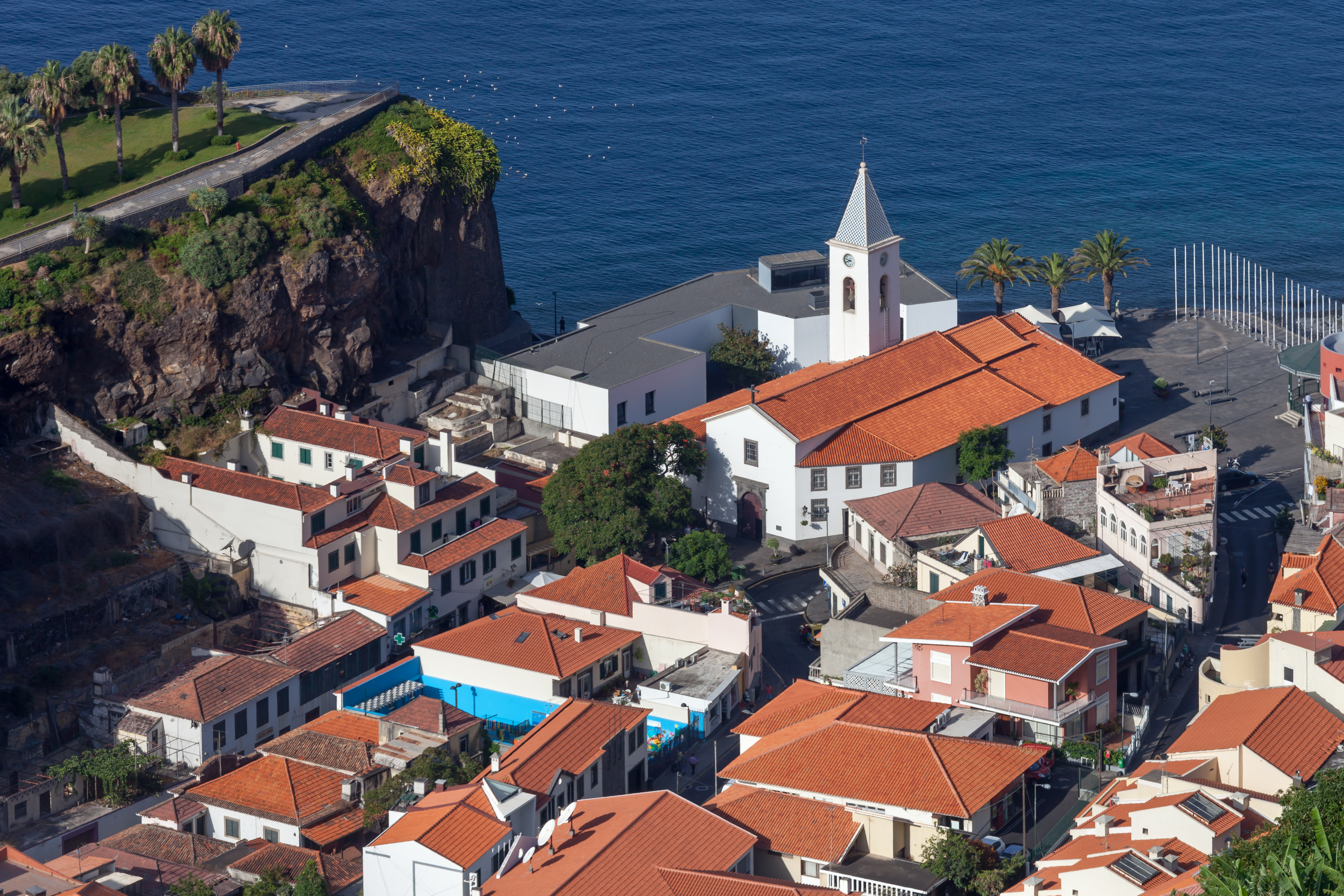 Câmara de Lobos. Madeira. Portugal